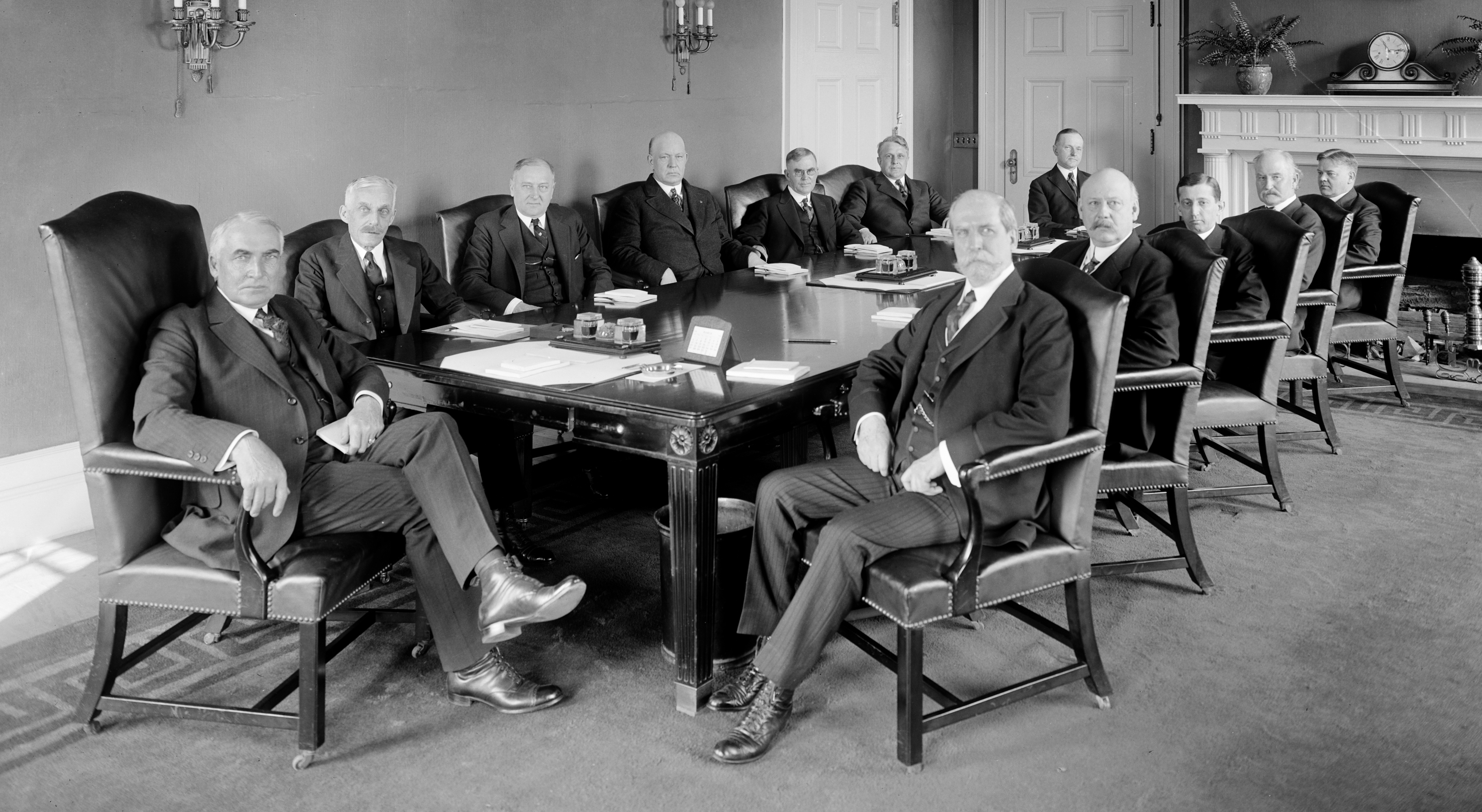 Photograph of President Warren G. Harding with his first Cabinet